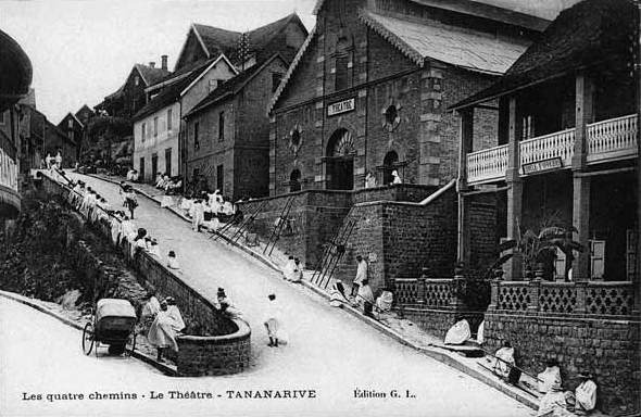 Original caption states "The Four Roads—the Theatre—Tananarive, Madagascar" Postcard. Tananarive is an old name for Antananarivo